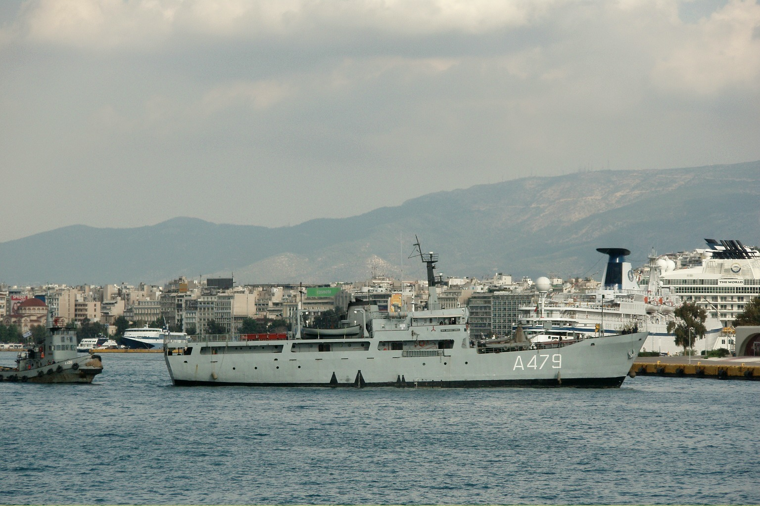 Hellenic Navy lighthouse tender HS Karavogiannos A-479, in Piraeus port.